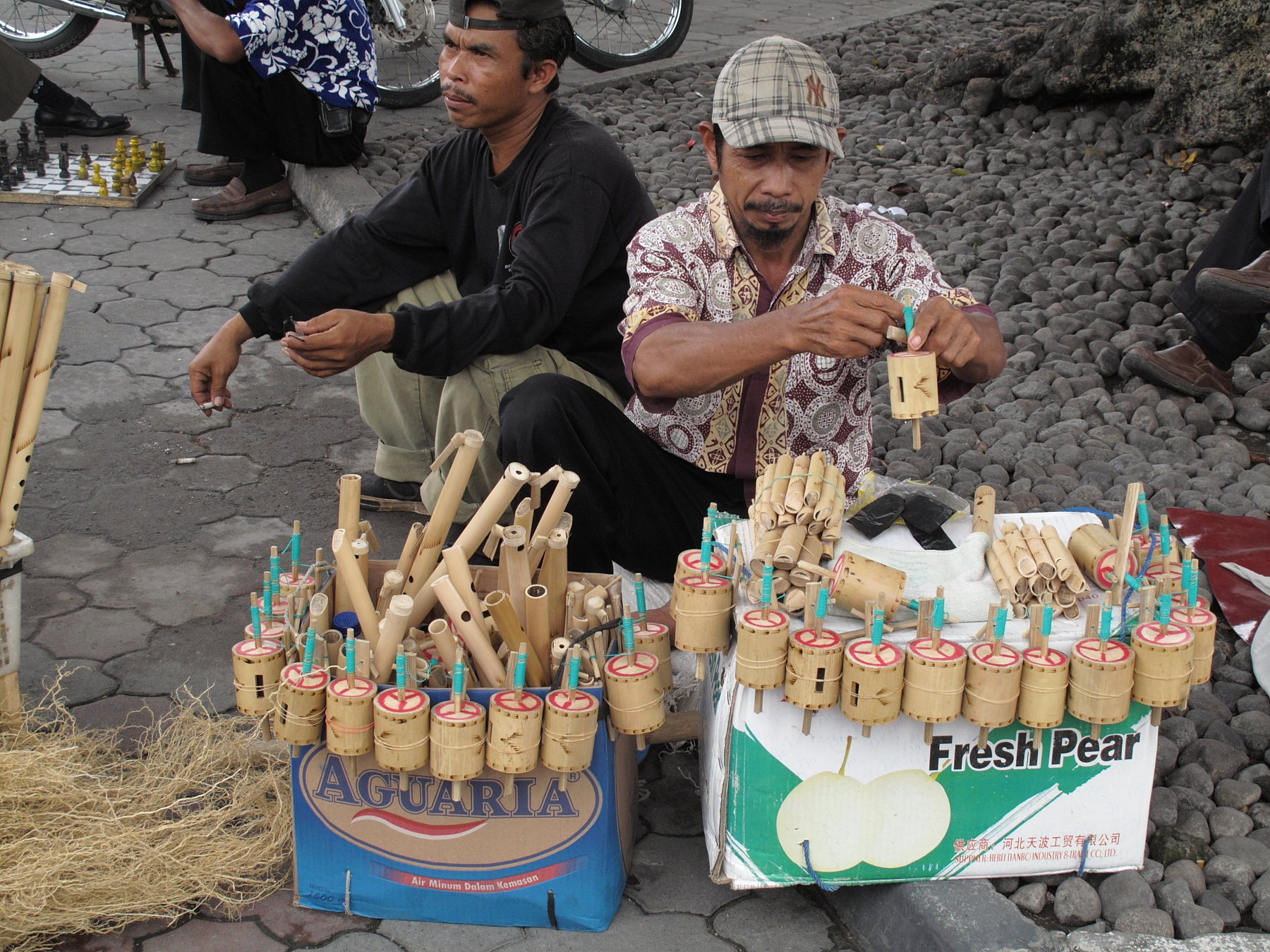 Javanese bamboo tops, Yogyakarta